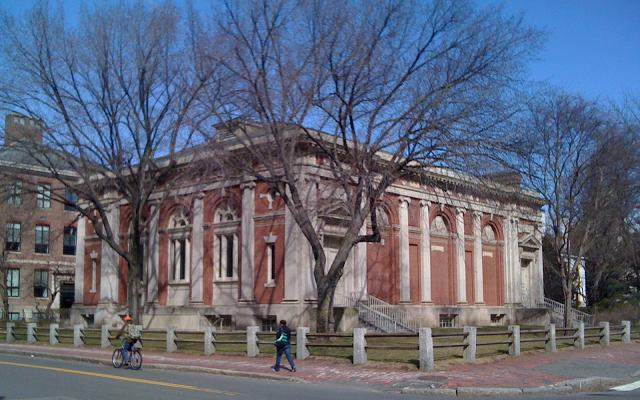 Photo of Lowell Hall at Harvard University, Cambridge, Ma, originally called the New Lecture Hall